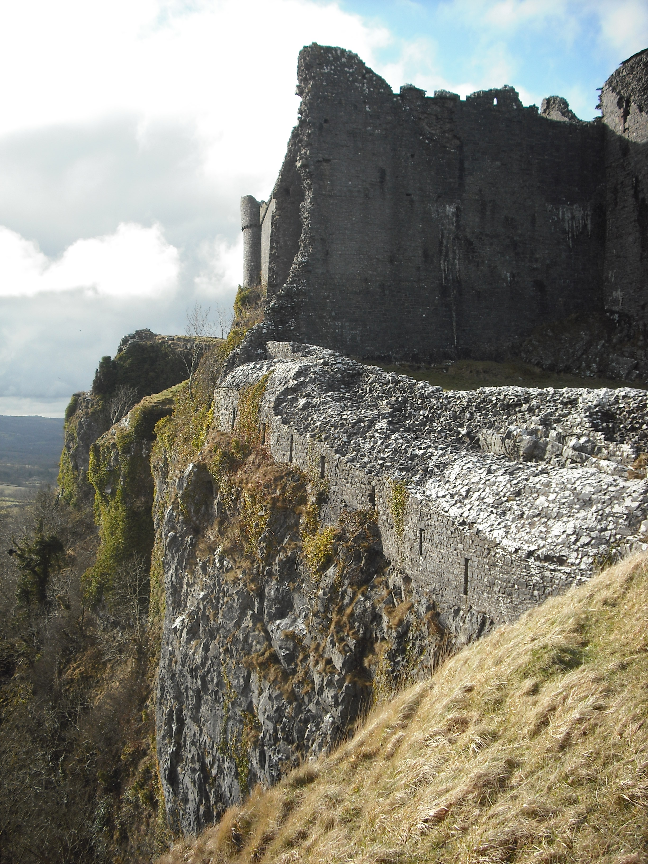 Carreg Cennen castle. The vaulted passage above the cliff to the cave.